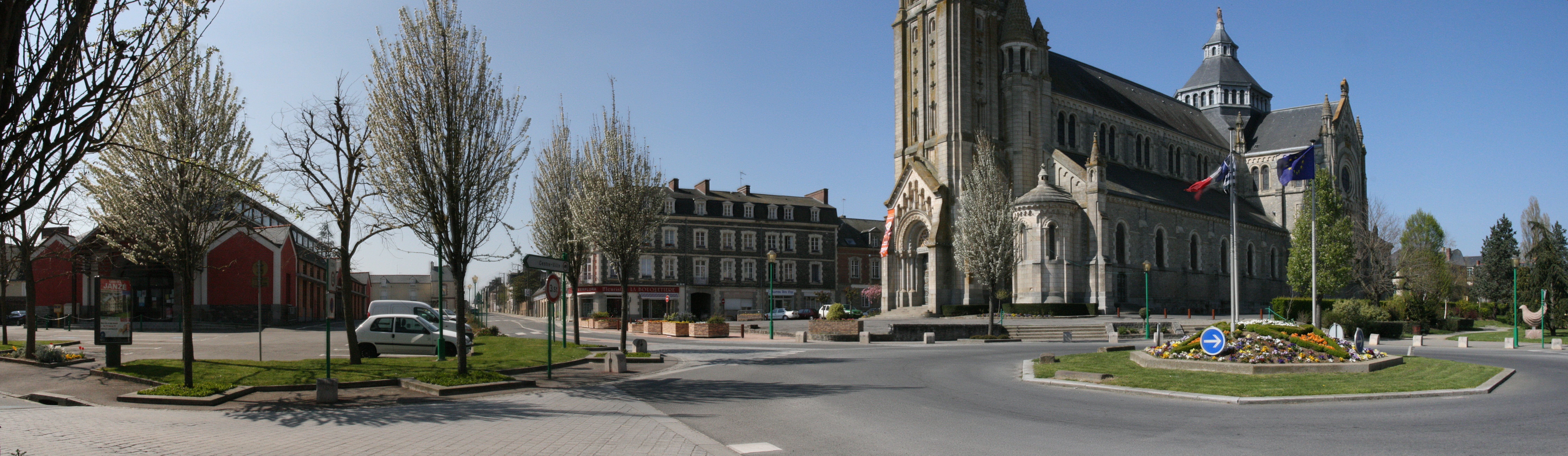 Town centre of Janzé (the covered marketplace and the church), Ille-et-Vilaine, Brittany, France.